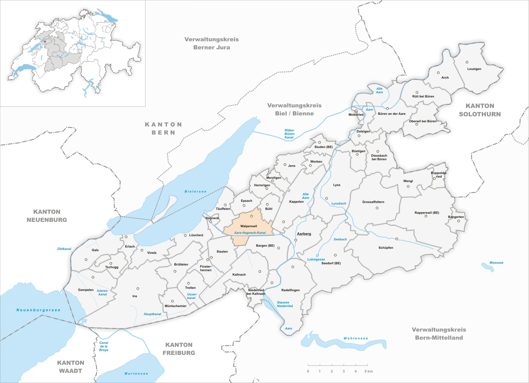 Municipality Walperswil